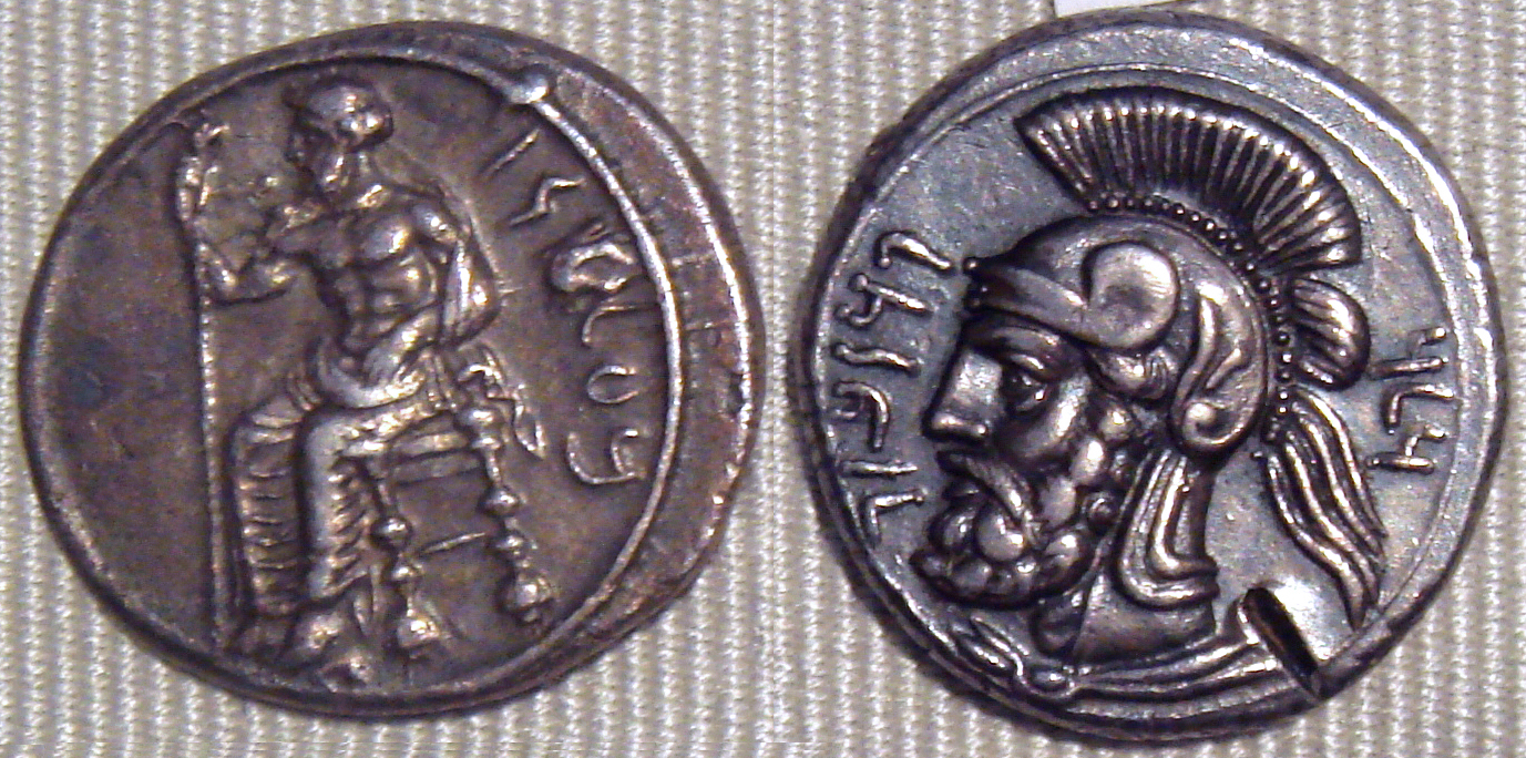 Obverse (left): Baaltars enthroned; reverse: helmeted bearded man (maybe Ares). Double shekel of Pharnabaze, satrap in Tarsus, Cilicia. Silver, 380–375 BC.